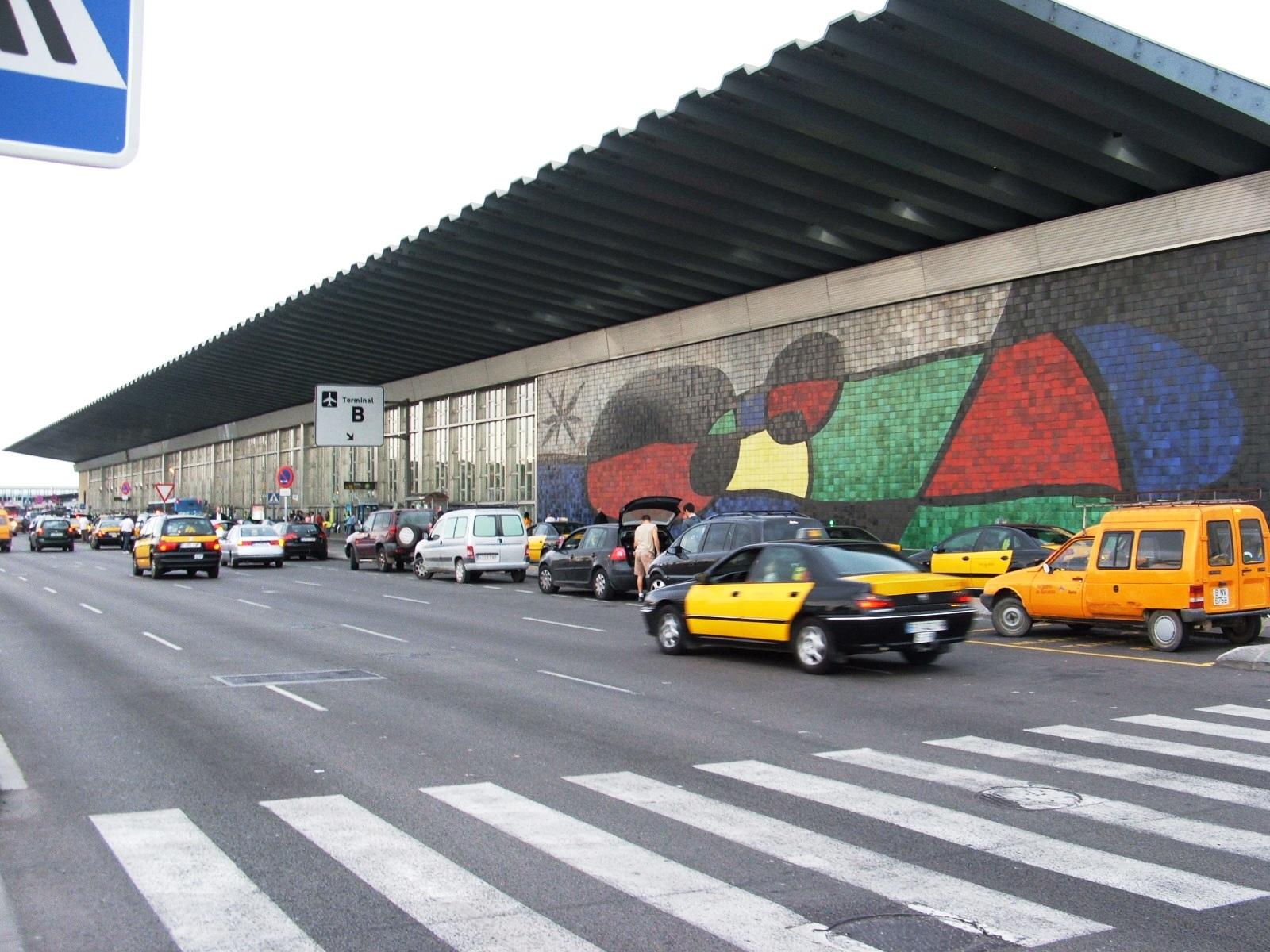 Barcelona airport, Terminal B